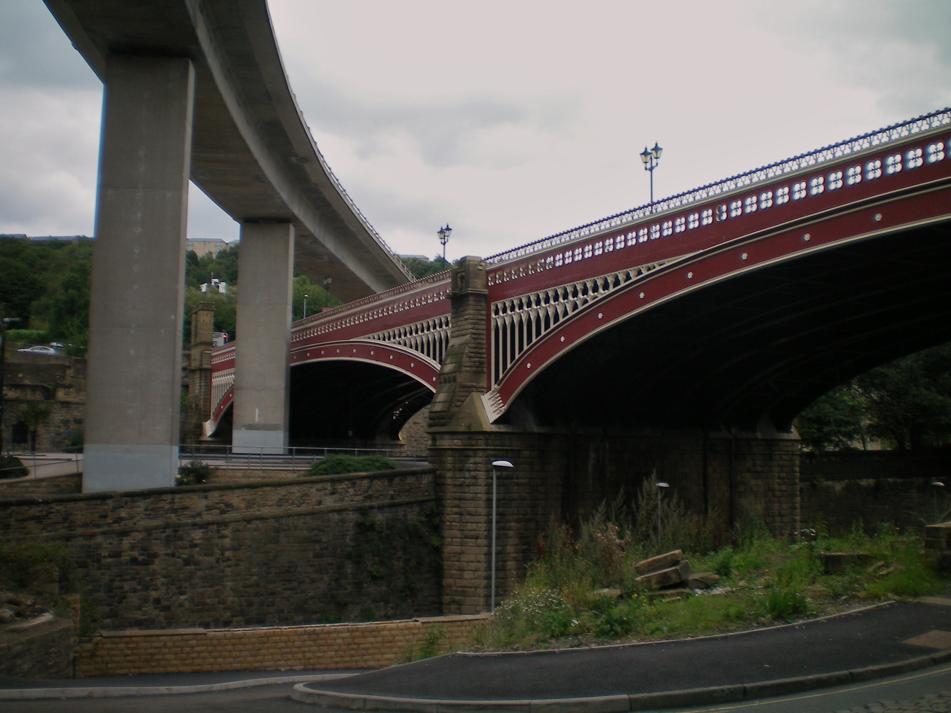 North Bridge and modern flyover, Halifax, West Yorkshire, England.